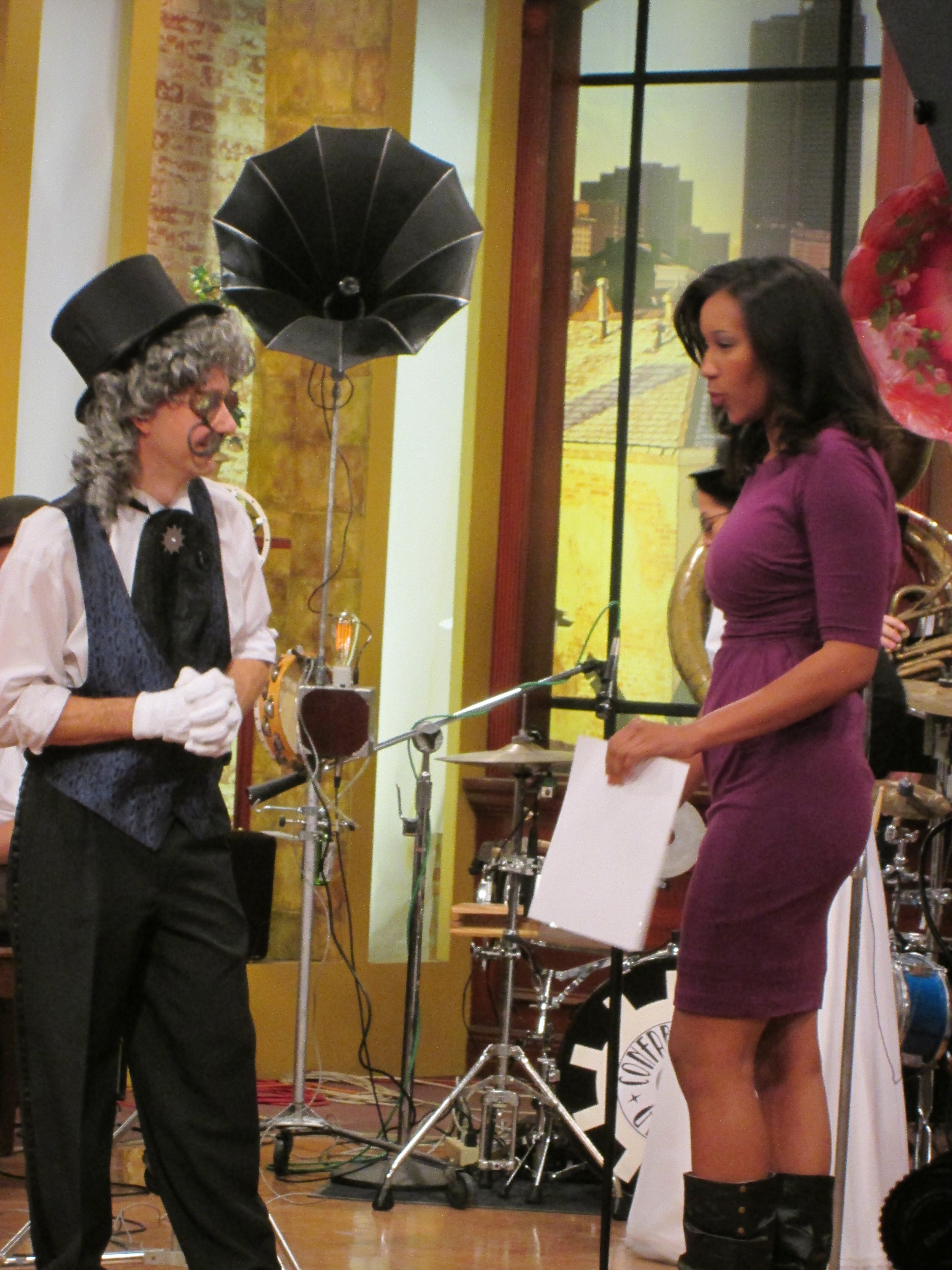 WUPL "My 54" television station studio, New Orleans. "Professor Milo Pinkerton", leader of "Steamcog" novelty band, with Sheba Turk (right), host of "The 504" television show. Original caption: The Confabulation of Gentry setting up for Halloween night television broadcast on "The 504" TV show at 9pm on WUPL, broadcast channel 54, and Cox Cable 2. Professor Pinkerton with Sheba Turk.